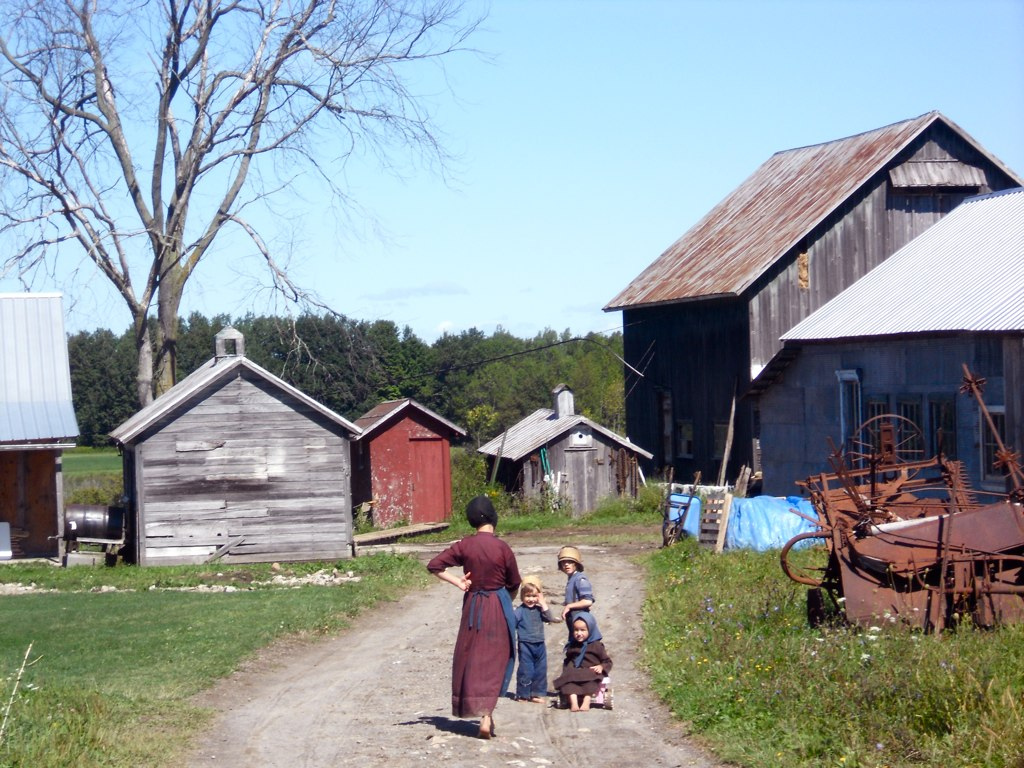 Amish farm kids at home on the outskirts of Morristown, NY. Taken in August 2011.